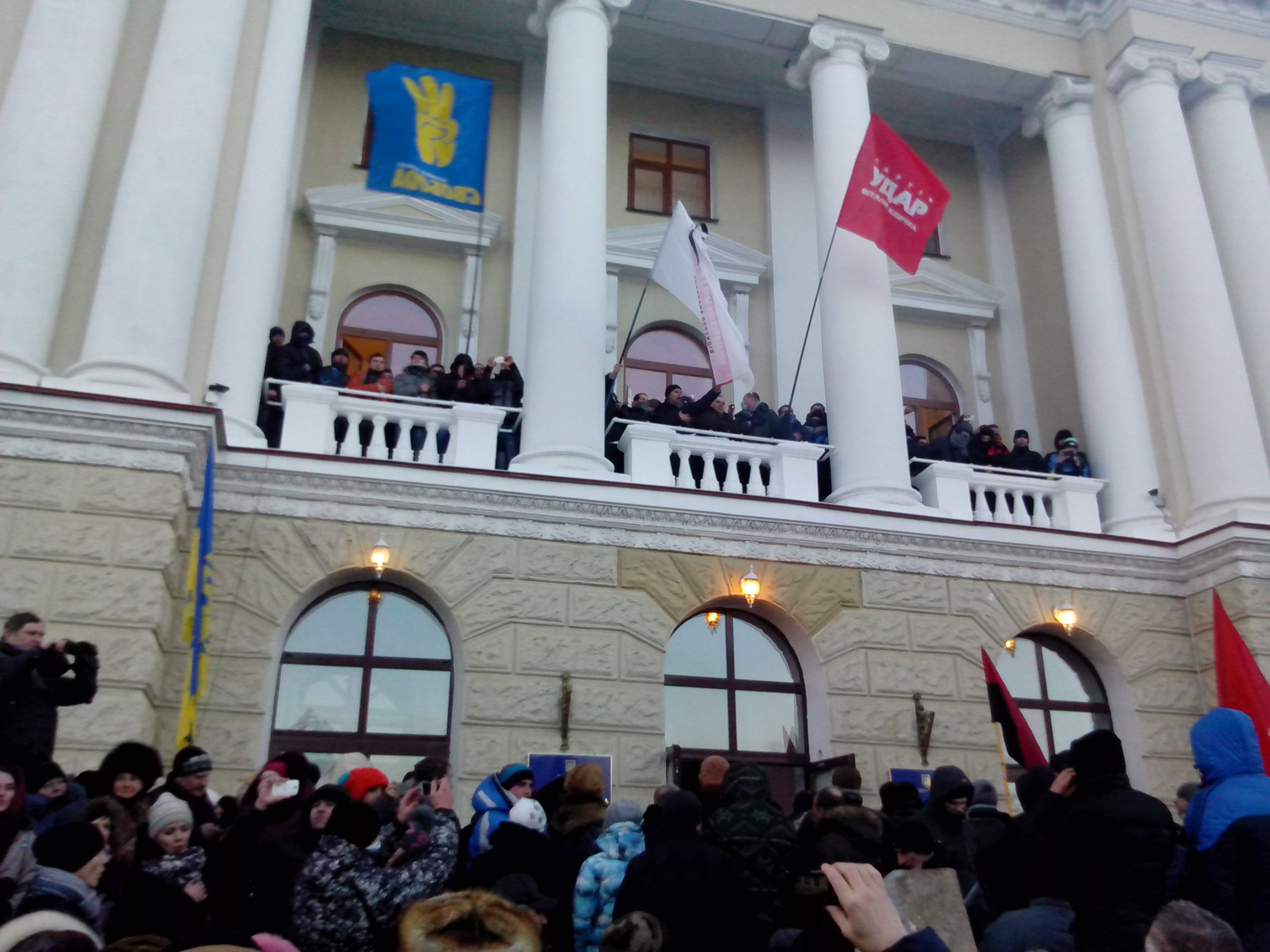 Euromaydan in Khmelnitsky. January 24, 2014. The protesters, who occupied Khmelnytsky Regional Council / Administration, greet people from the balcony.